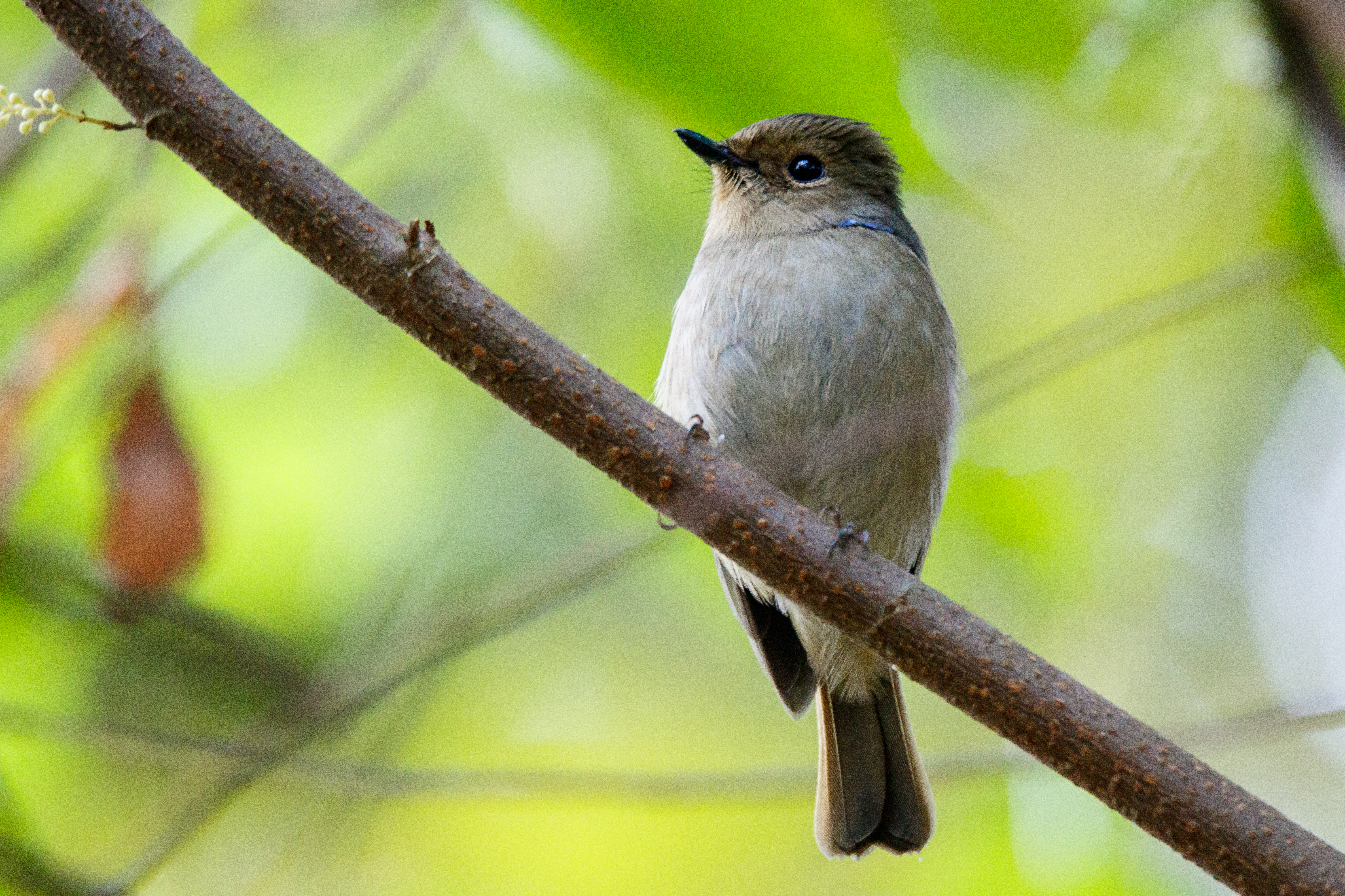 Small Niltava Niltava magarigoriae, Nepal